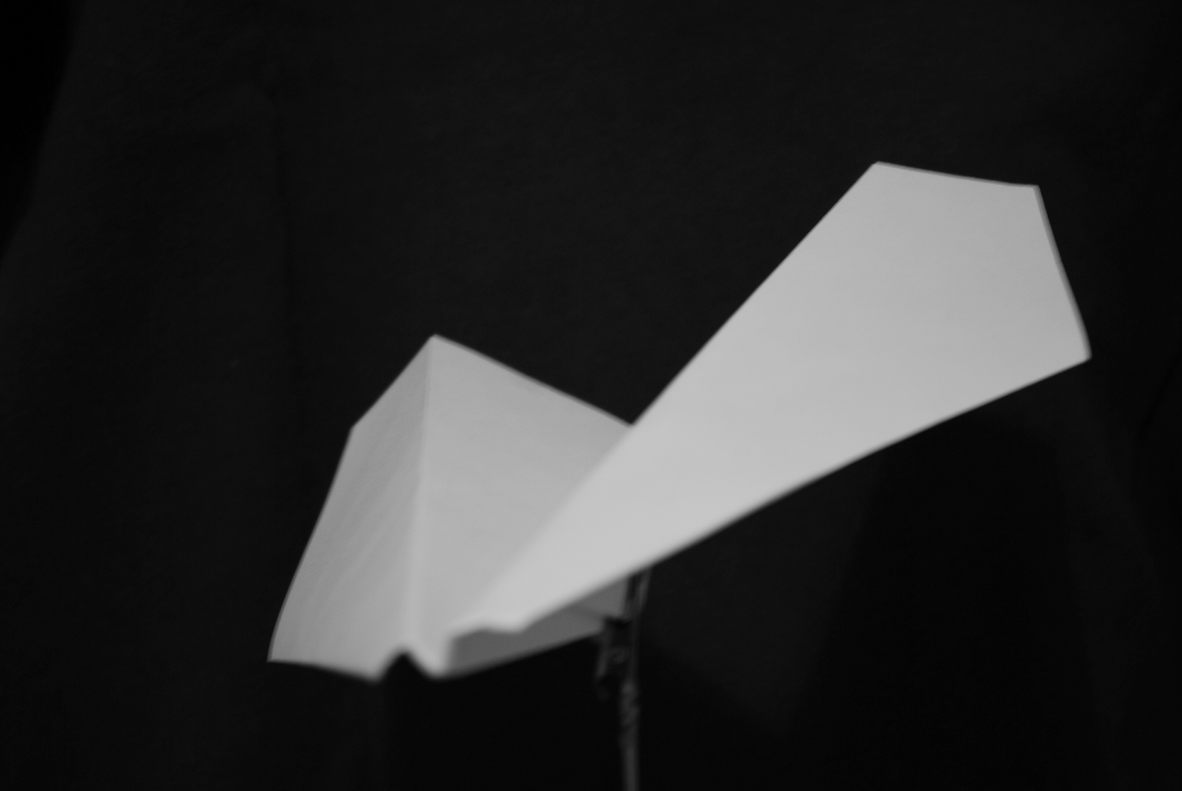 A paper plane